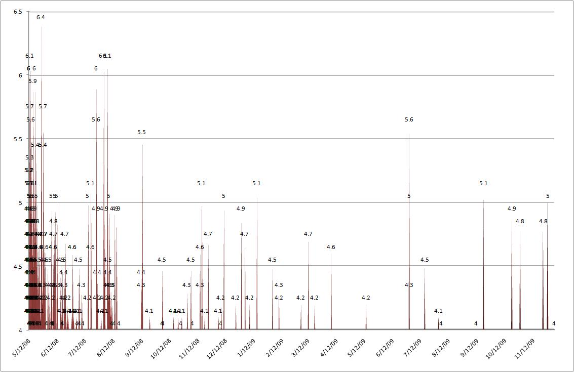 Winchuan (sichuan) earthquake aftershocks data from 5/13/2008 to 2/10/2010. Please contact me if you need the original data. (made by MS Excel 2007)